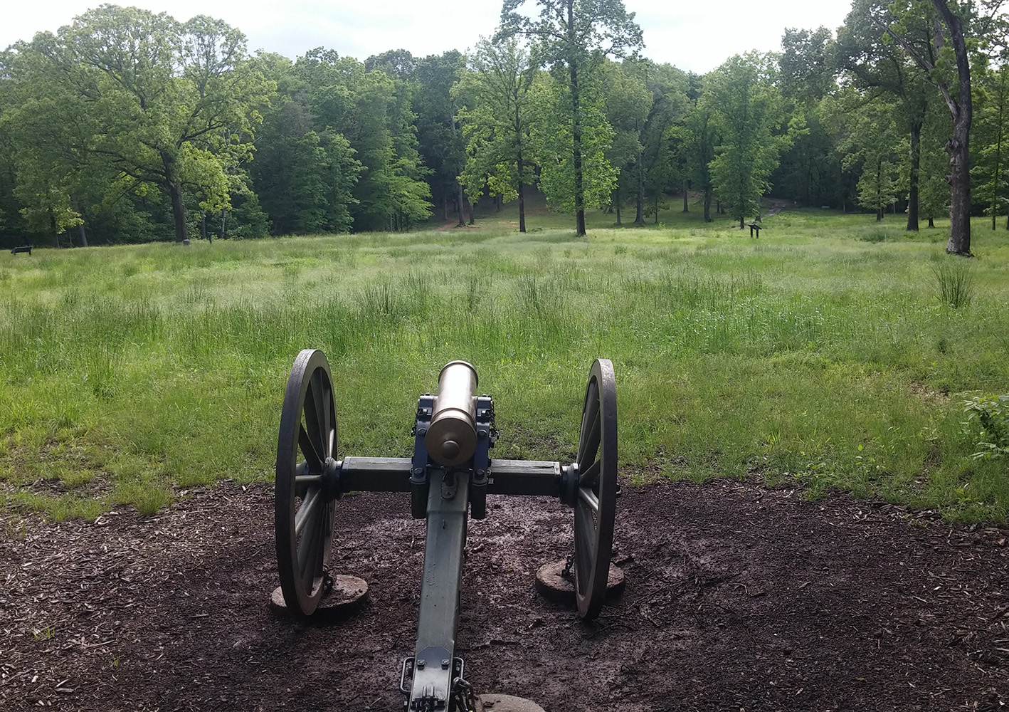 Union howitzer on Balls Bluff battlefield